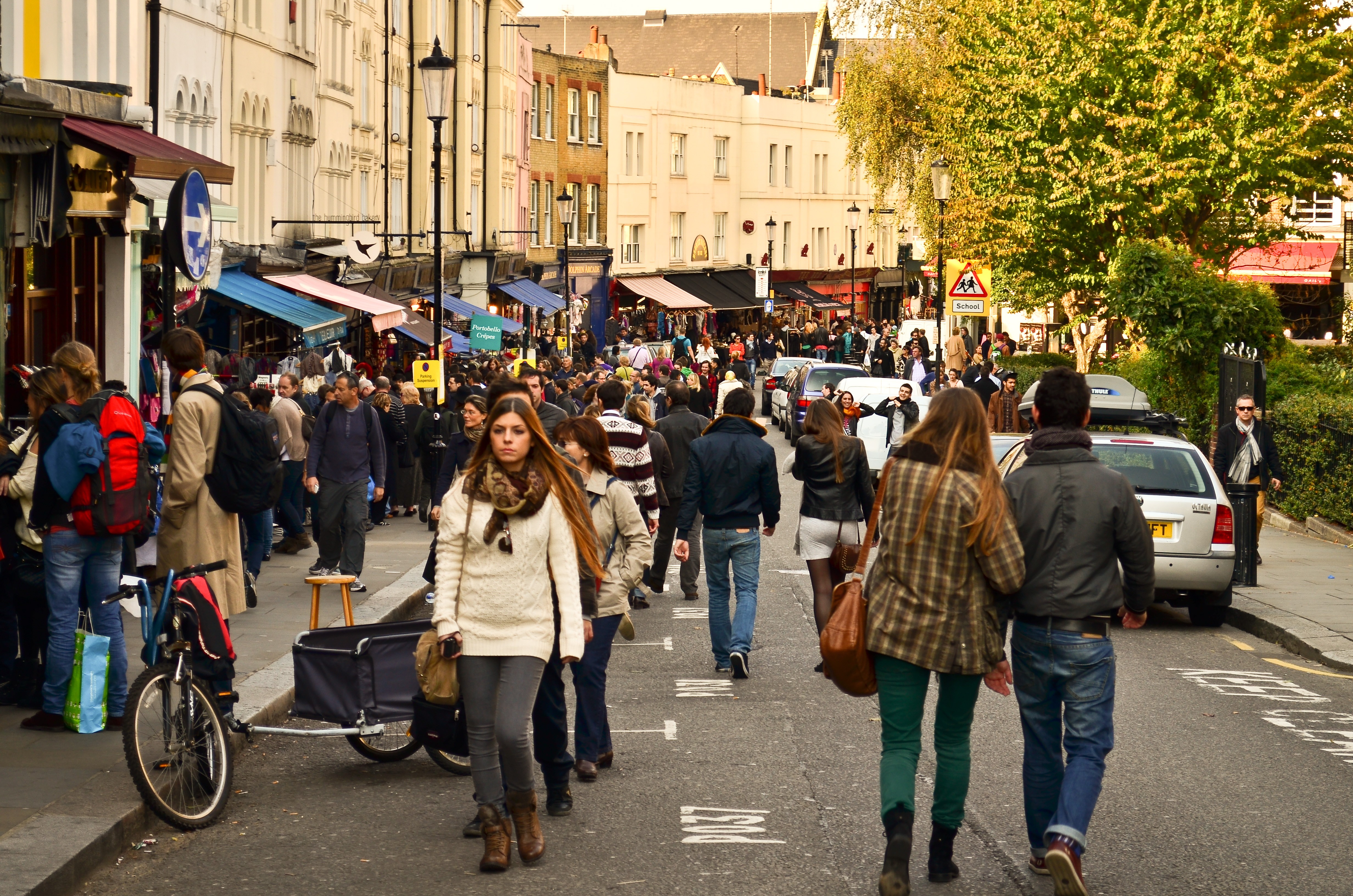 Home of the famous antique market in Notting Hill, London.